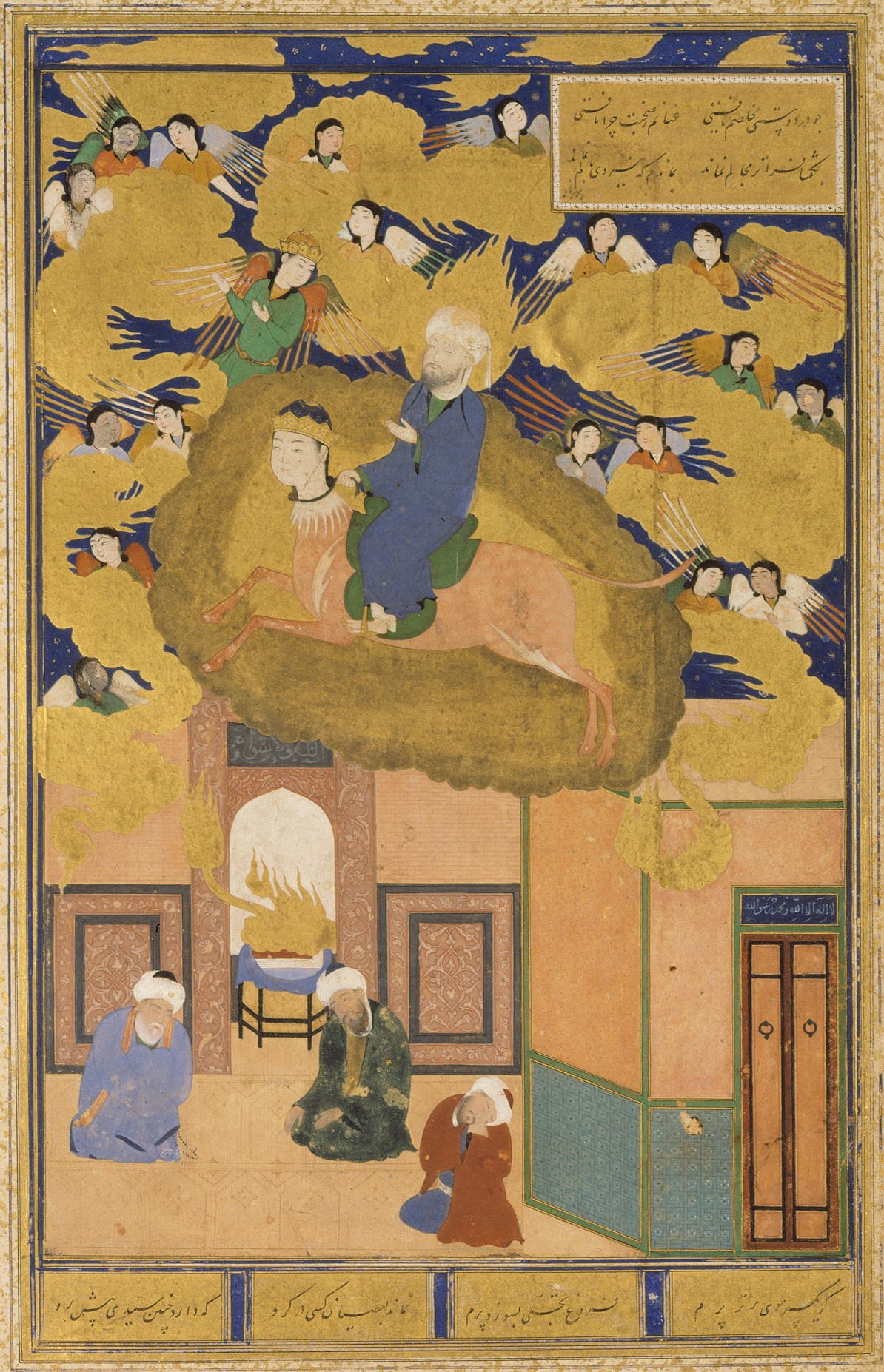 The Night Journey of Muhammad on His Steed, Buraq; Leaf from a copy of the Bustan of Sa'di (Persian Poet), dated 1514 Painter: Unknown; Calligrapher: Sultan Muhammad Nur Bukhara, Uzbekistan Colors, ink, and gold on paper; 7.5 x 5 in. (19 x 12.7 cm) Purchase, Louis V. Bell Fund and The Vincent Astor Foundation Gift, 1974 (1974.294.2)